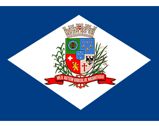 Flag of city of Joinville, Santa Catarina, Brazil